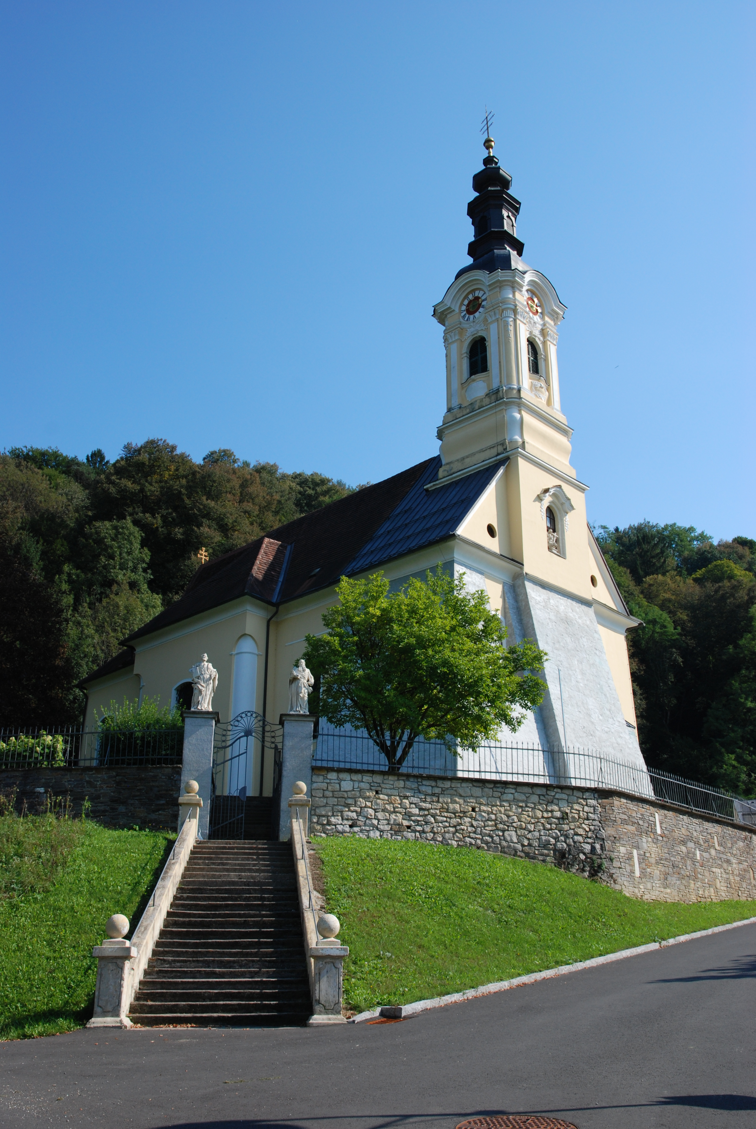 Stiegenaufgang mit Statuen Wolfsberg im Schwarzautal